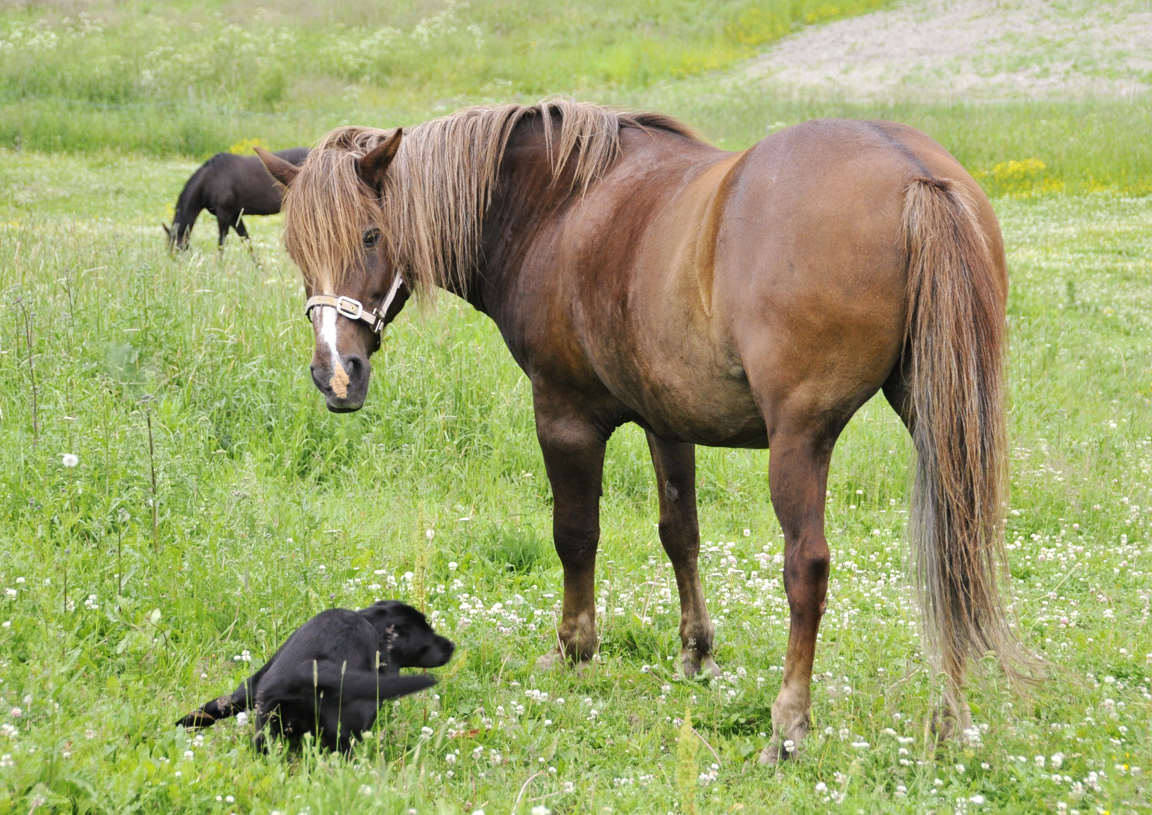 Elderly Finnhorse mare (20 y.o.) watches unfazed as a young Lab comes to check her out.